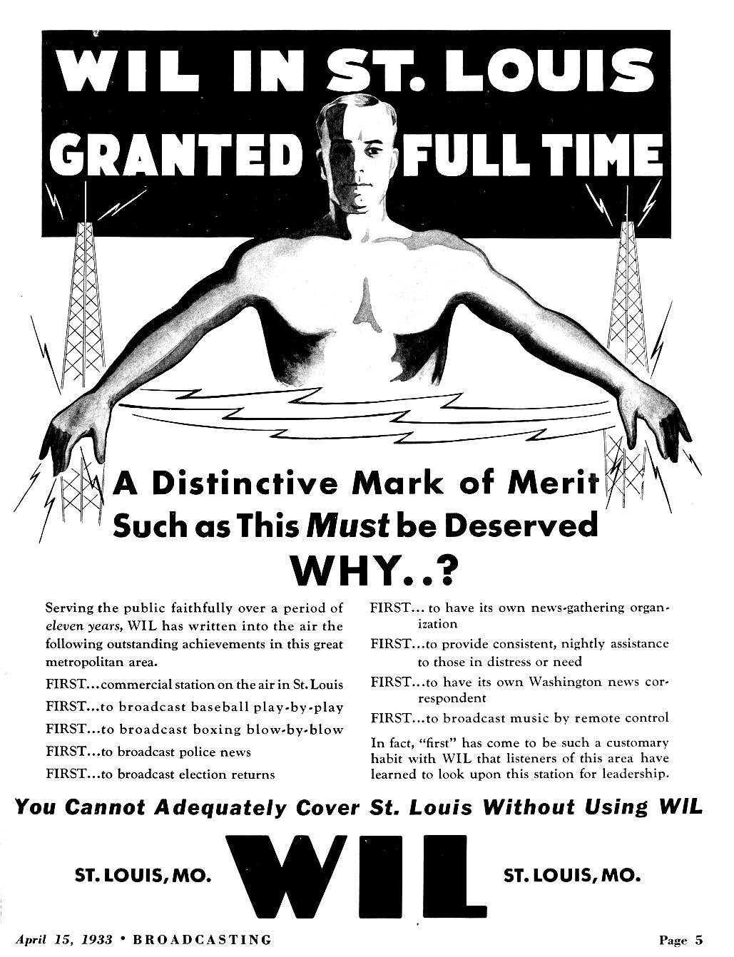 Advertisement for WIL radio in Saint Louis, Missouri.